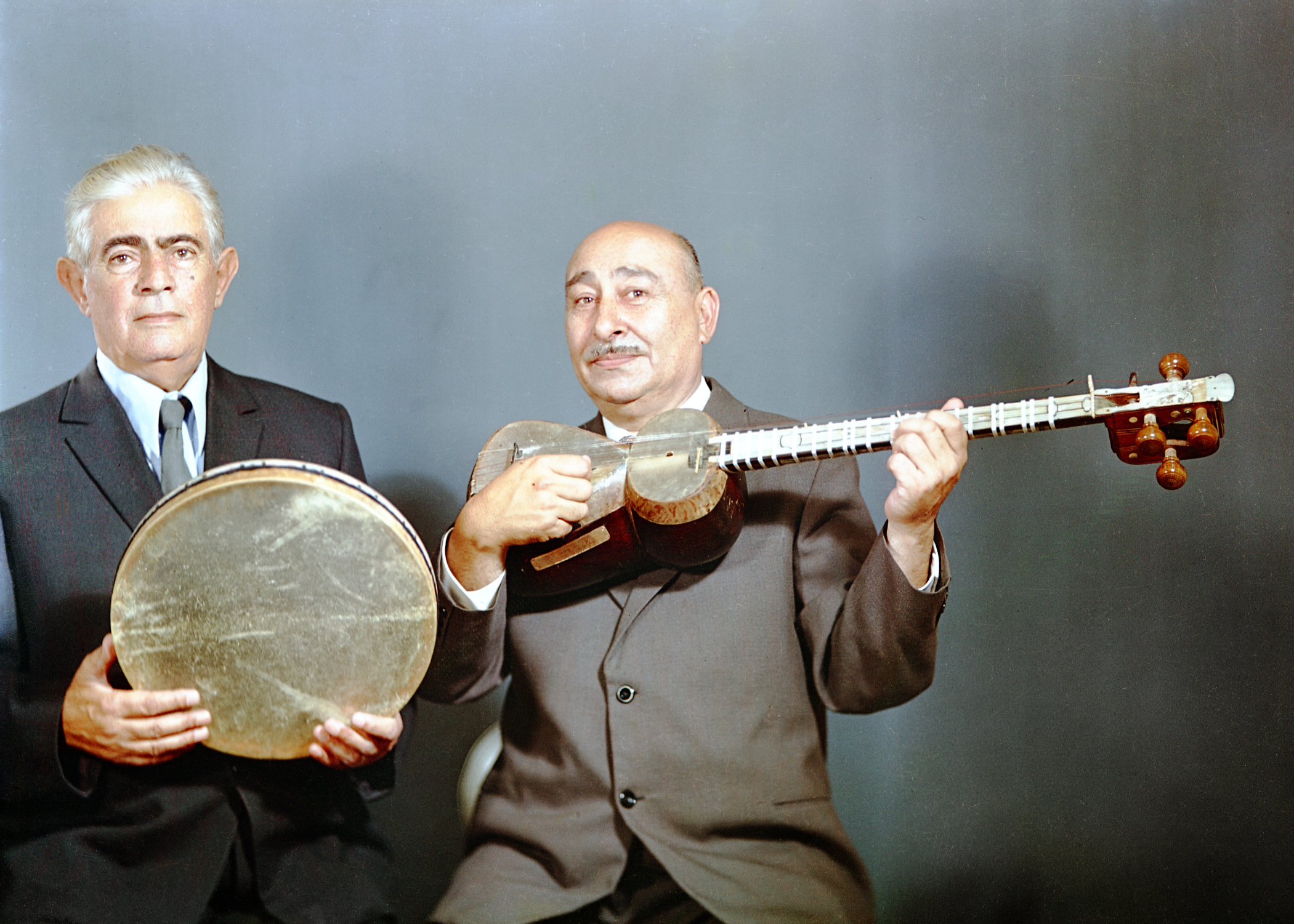 Khan Shushinskiy and Bahram Mansurov